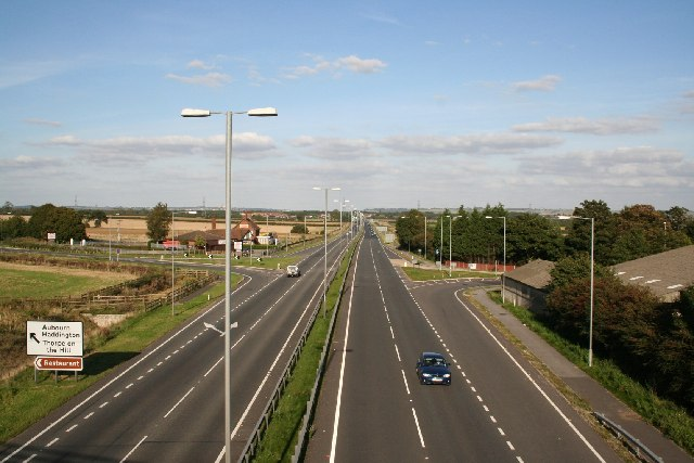 Fosse Way. Looking East along the line of the Roman Fosse Way towards Lincoln from the new bridge at Thorpe on the Hill